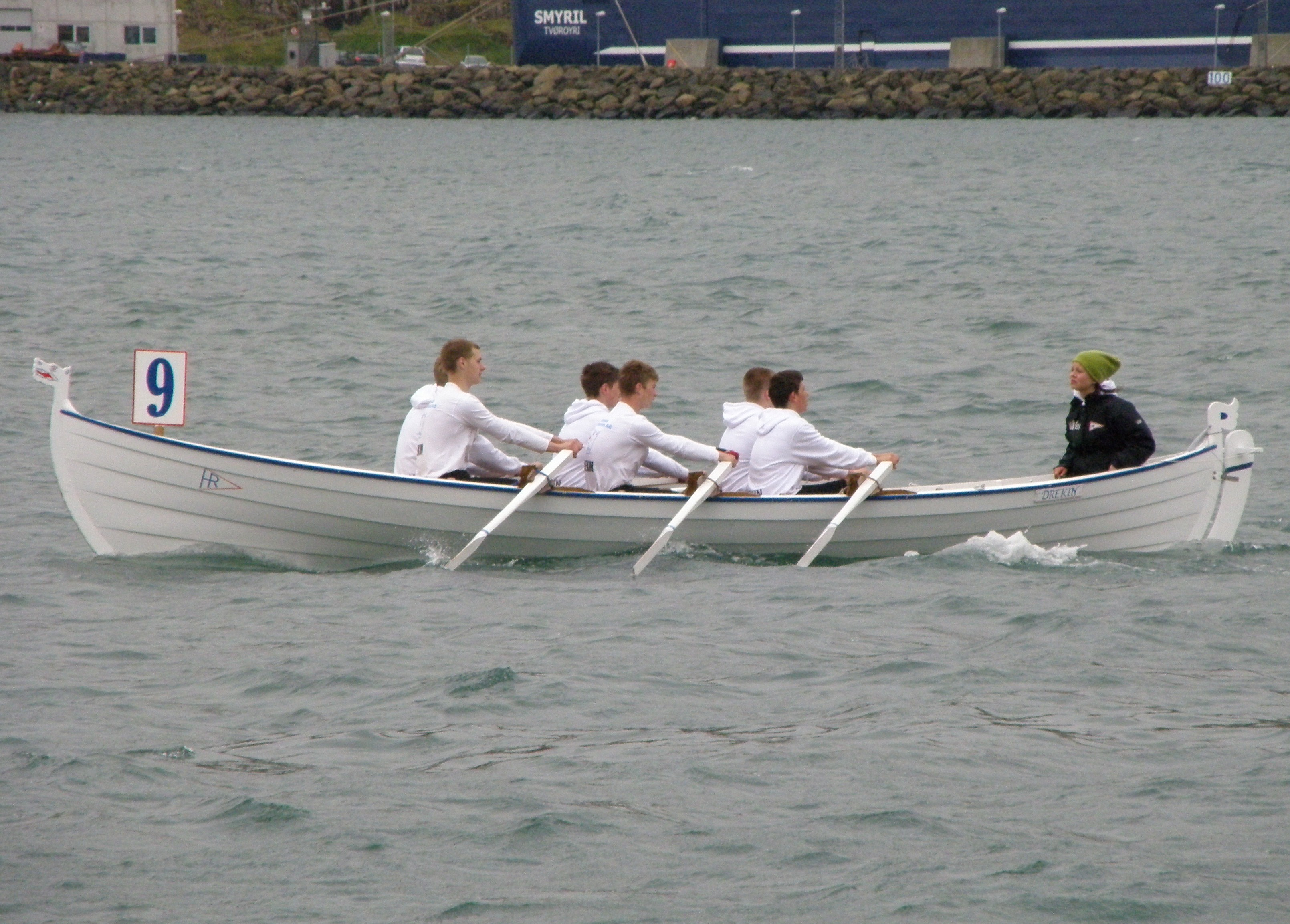 Drekin is a wooden Faroese rowboat, it belongs to one of the rowing clubs from Tórshavn, Havnar Róðrarfelag. The boats of Havnar Róðrarfelag are characterized by the dragon head in the front part of the boat and by the white colour and blue stripe on top of the boat. It participates in the rowing competitions in the Faroe Islands every summer. This photo was taken after the race for this kind of boats at the Joansoka Festival in Tvøroyri, Suðuroy on 25 June 2011. Drekin became number 4 in this race, in an earlier race at the Sundalagsstevna Drekin was the winner of 5-mannafar for boys. Føroyskt: Drekin er eitt 5-mannafar, sum Havnar Róðrarfelag eigur. Henda myndin varð tikin á jóansøku á Tvøroyri 25. juni 2011 beint eftir at 5-mannafar's róðurin hjá dreingin var liðugur. Drekin gjørdist nummar fýra henda dagin, men á Sundalagsstevnuni var hann vinnari.